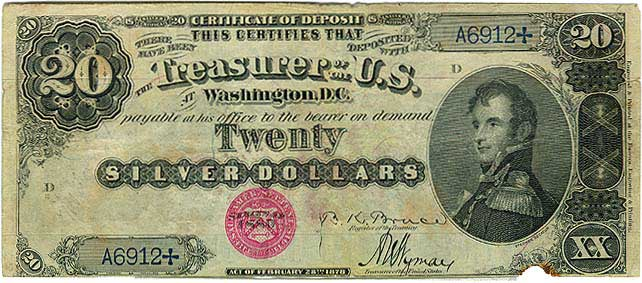 Commodore Stephen Decatur as depicted on the 1880 Series $20 Silver Certificate.